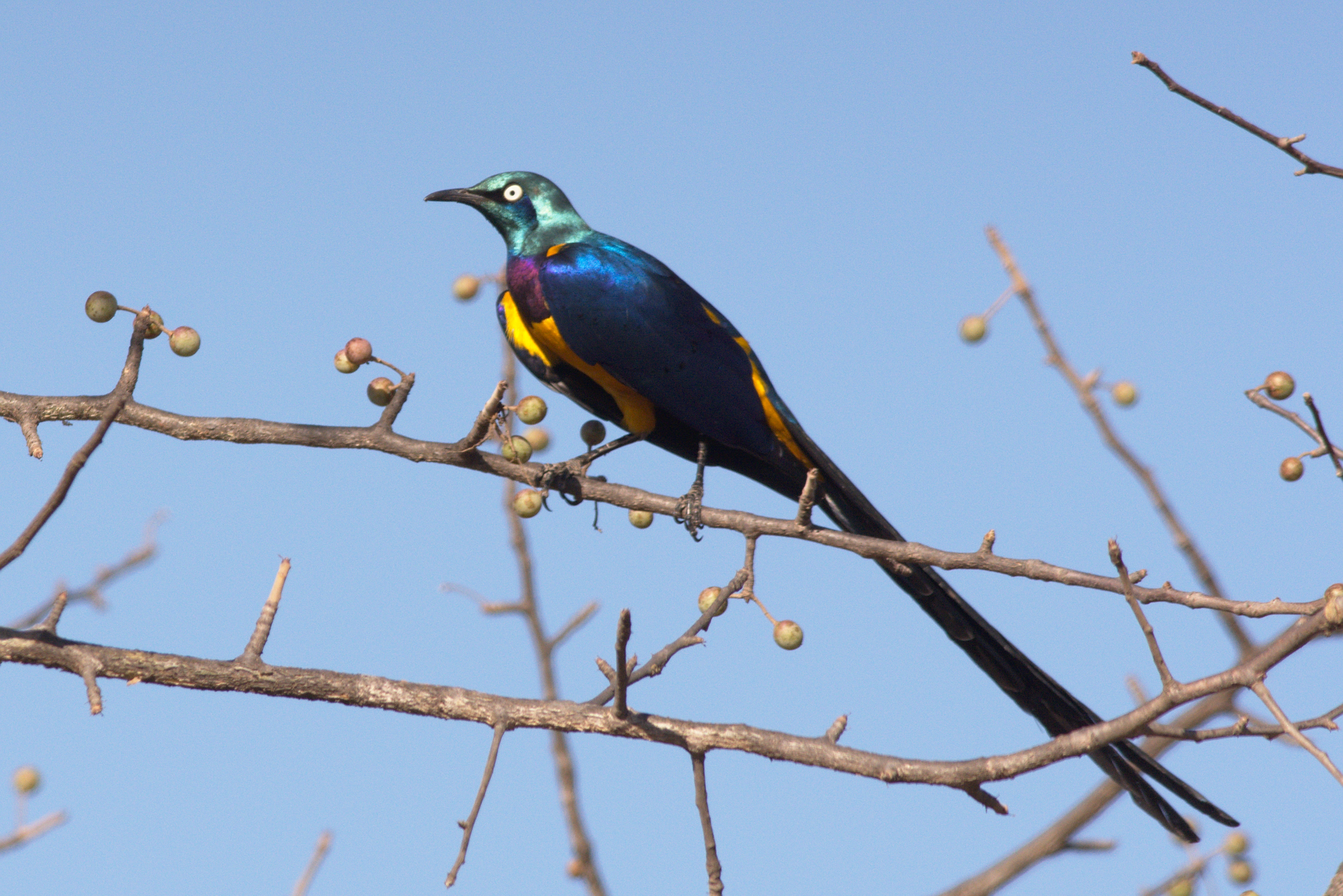 Golden-breasted Starling Lamprotornis regius, Wachile Road, Ethiopia.